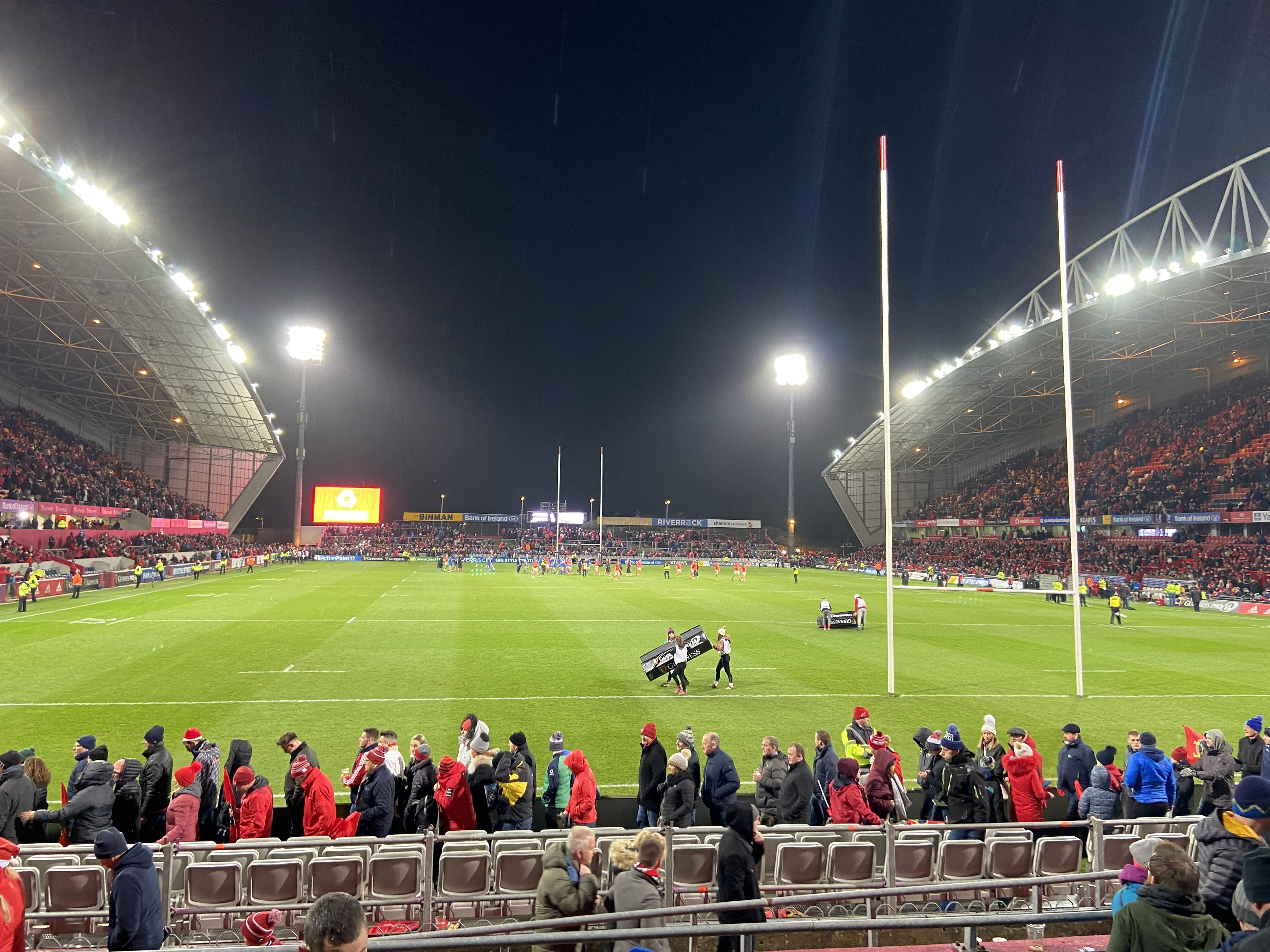 Munster vs Leinster 28/12/2019